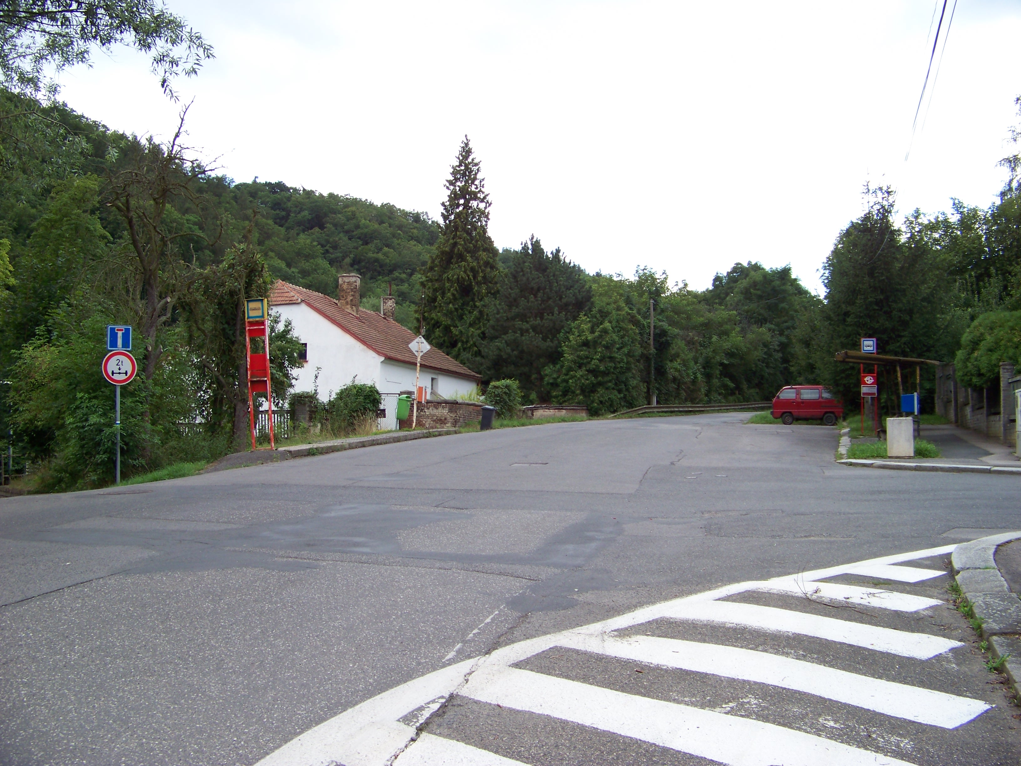 Prague-Dejvice, the Czech Republic. V Šáreckém údolí 85/25, bus stop Na Mlýnku.